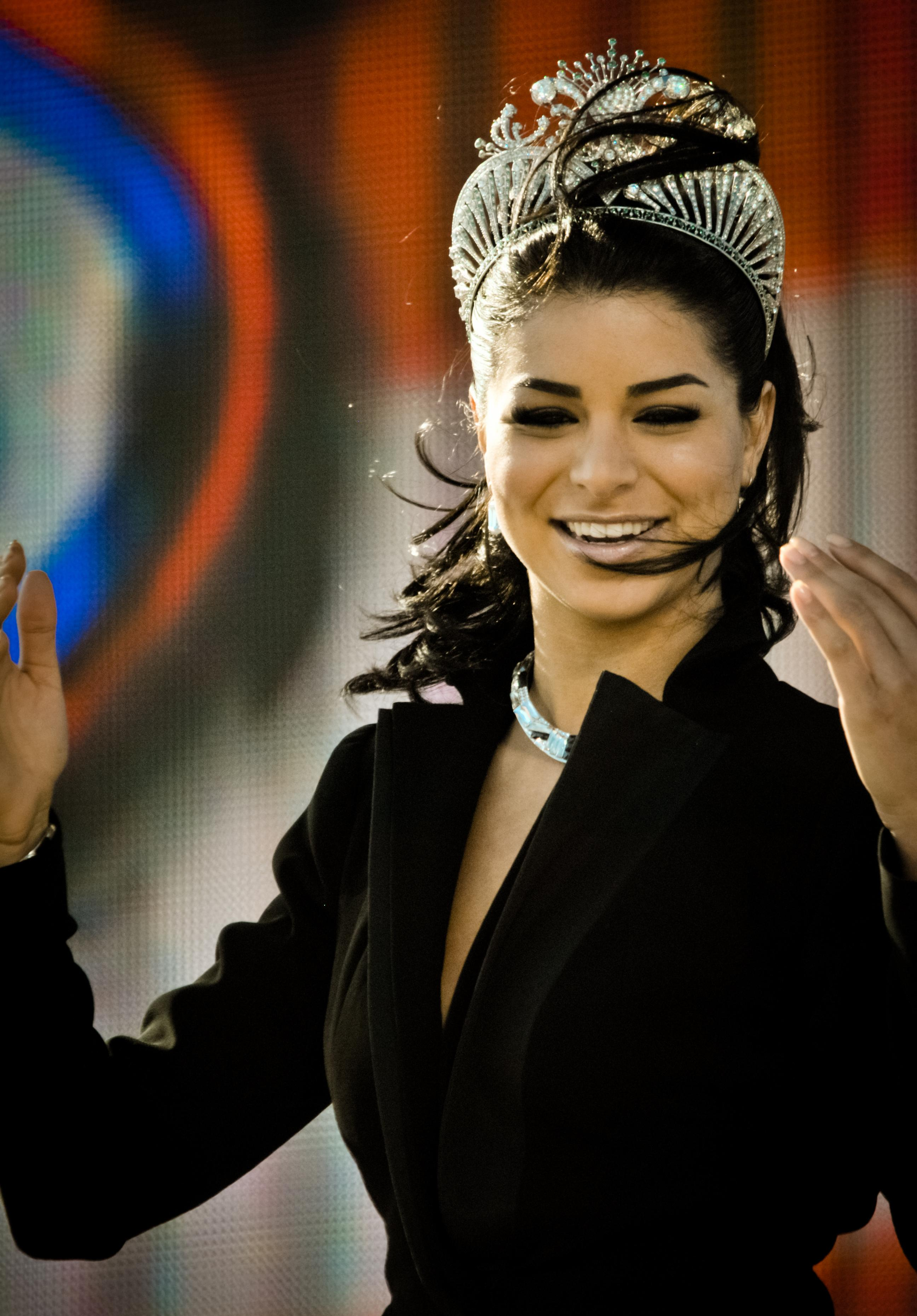 Ms USA 11